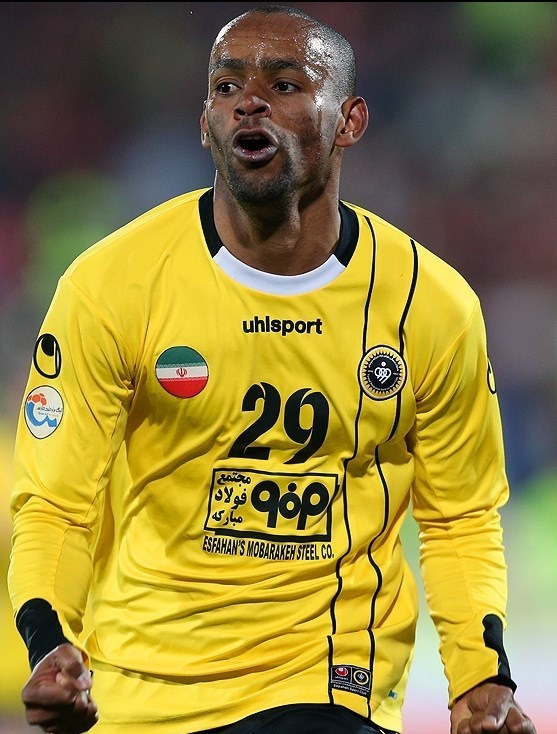 Luciano Pereira Mendes